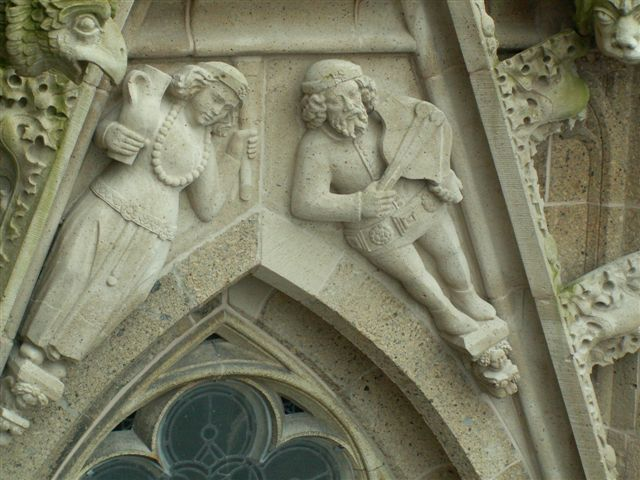 a view of a relief above one of the windows of the choir of Saint John's cathedral in 's Hertogenbosch, the Netherlands